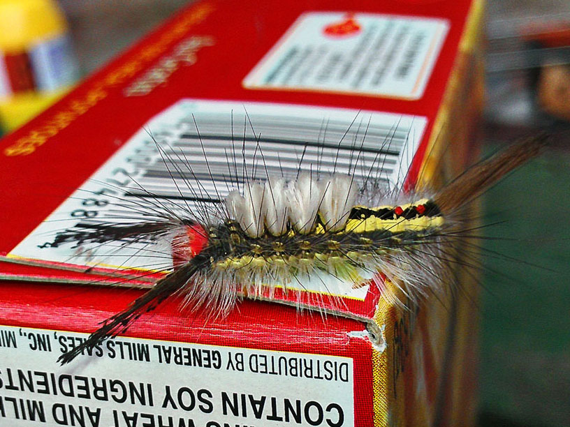 Orgyia Leucostigma caterpillar in Michigan (June).jpg